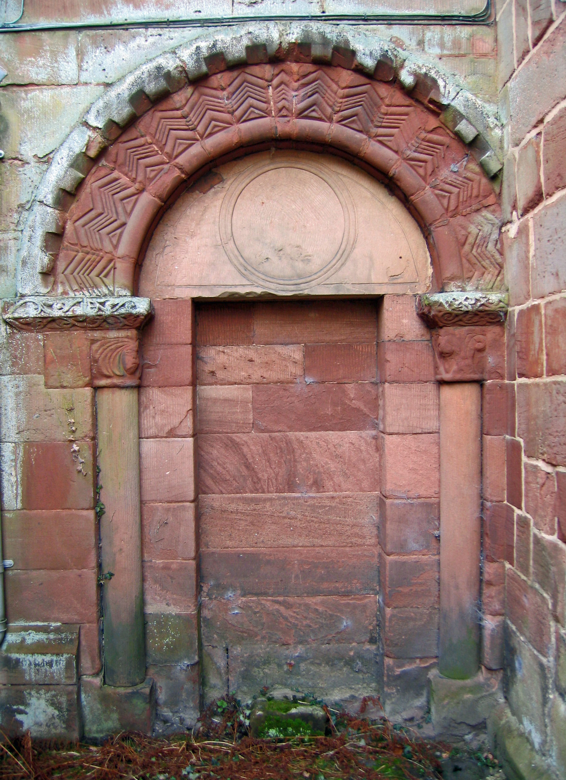 Norman doorway in the north wall of St Bertoline's Church, Bartholmey, Cheshire, England